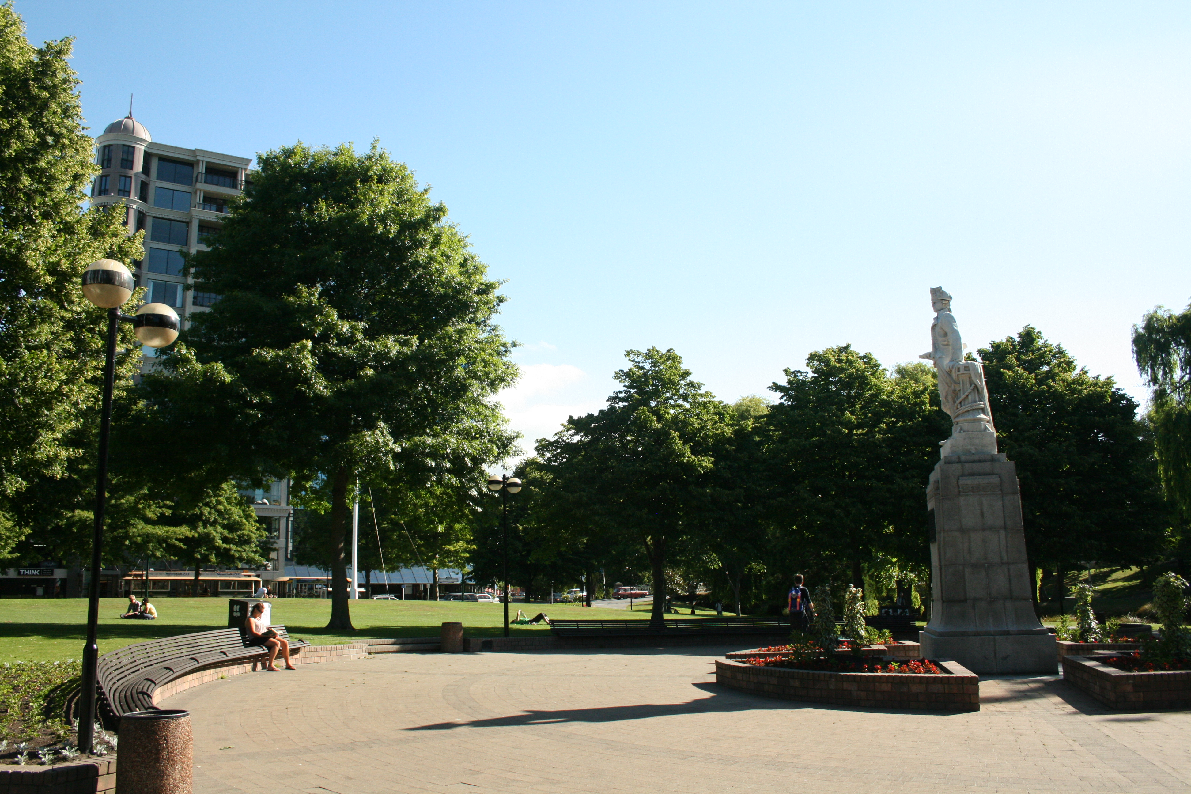 Christchurch, New Zealand